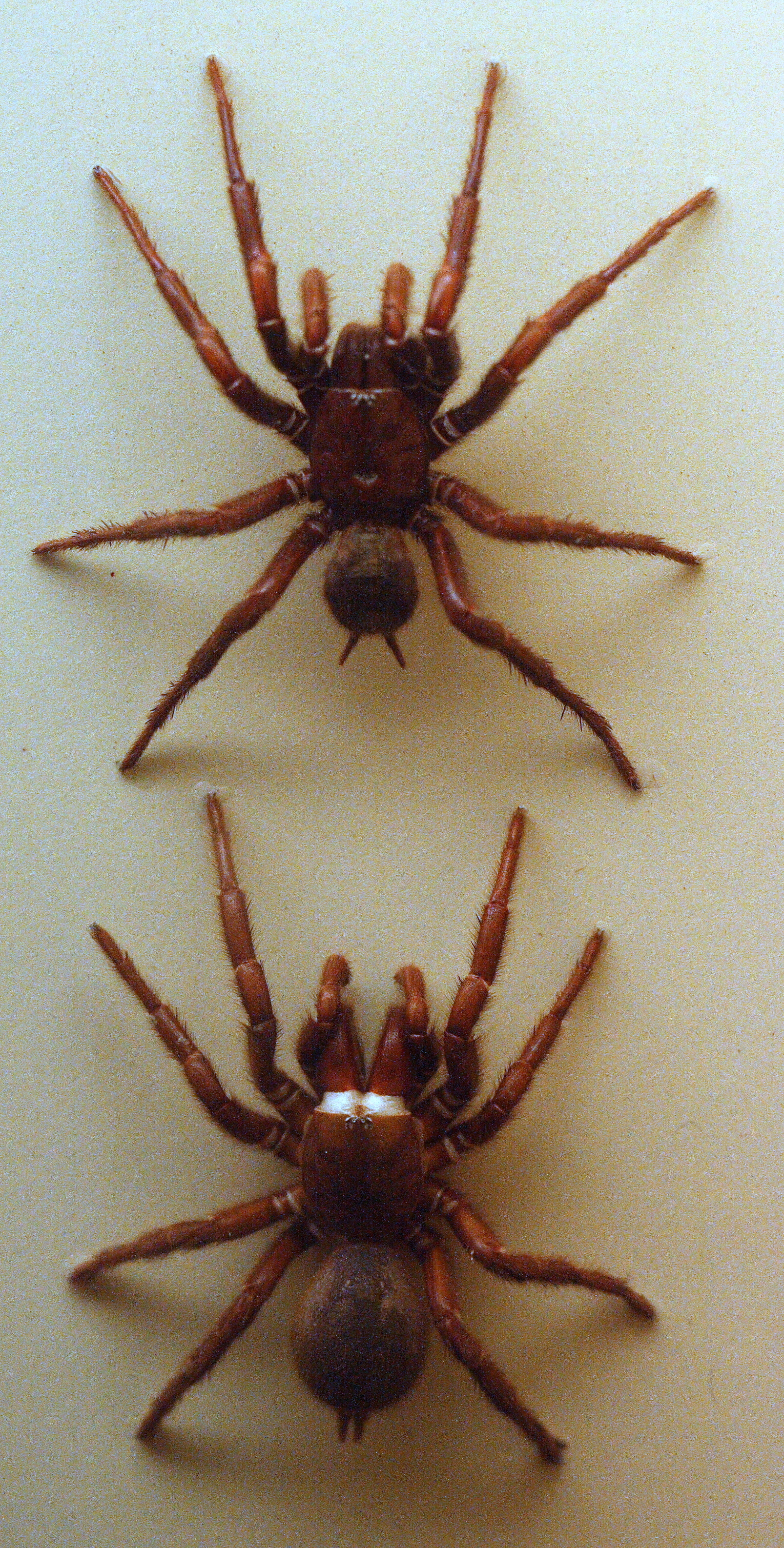 Specimen in the Australian Museum spider display.